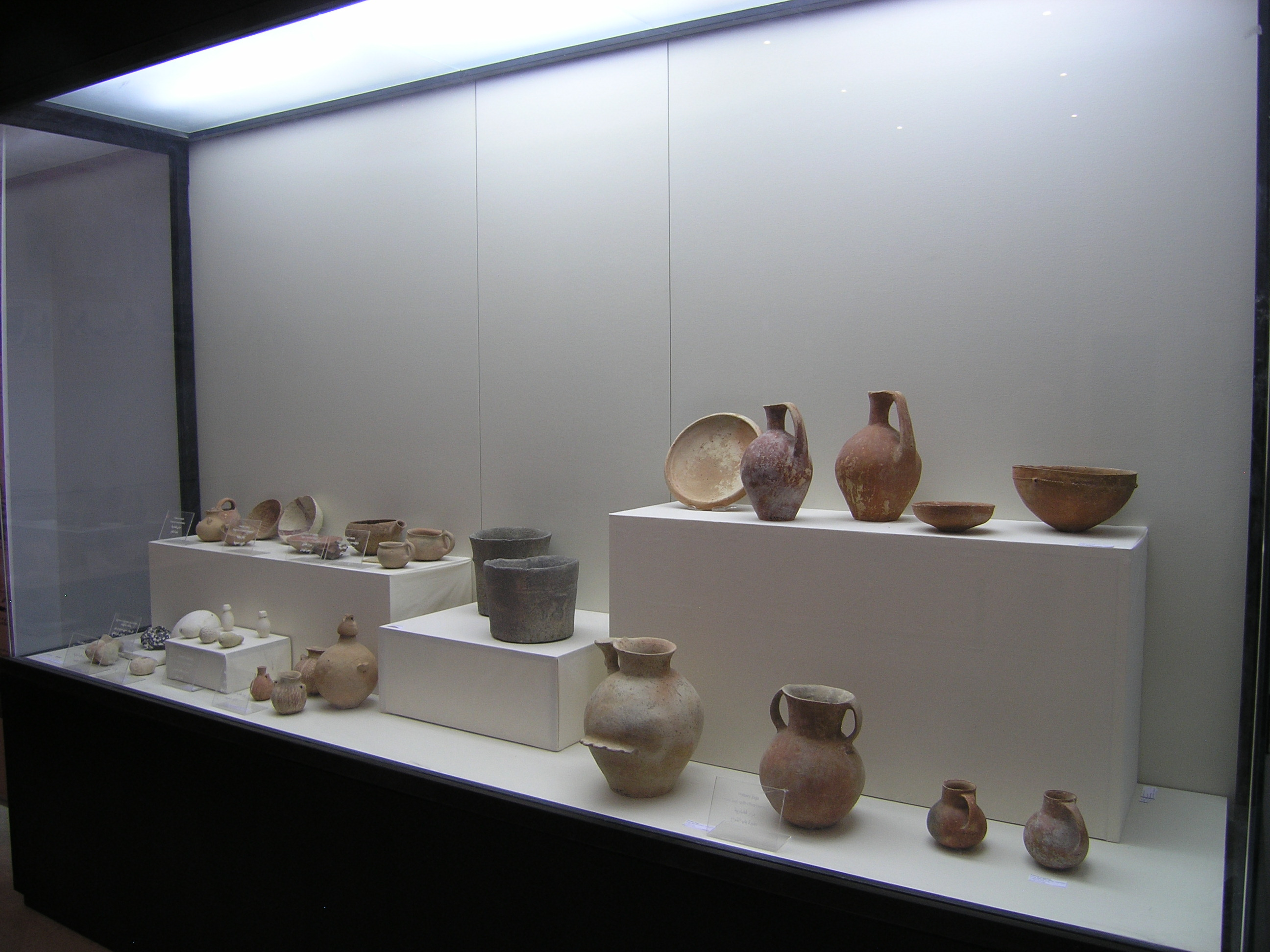 Museum at the Lowest Place on Earth (MuLPE) and the winding road to the Sanctuary of Agios Lot